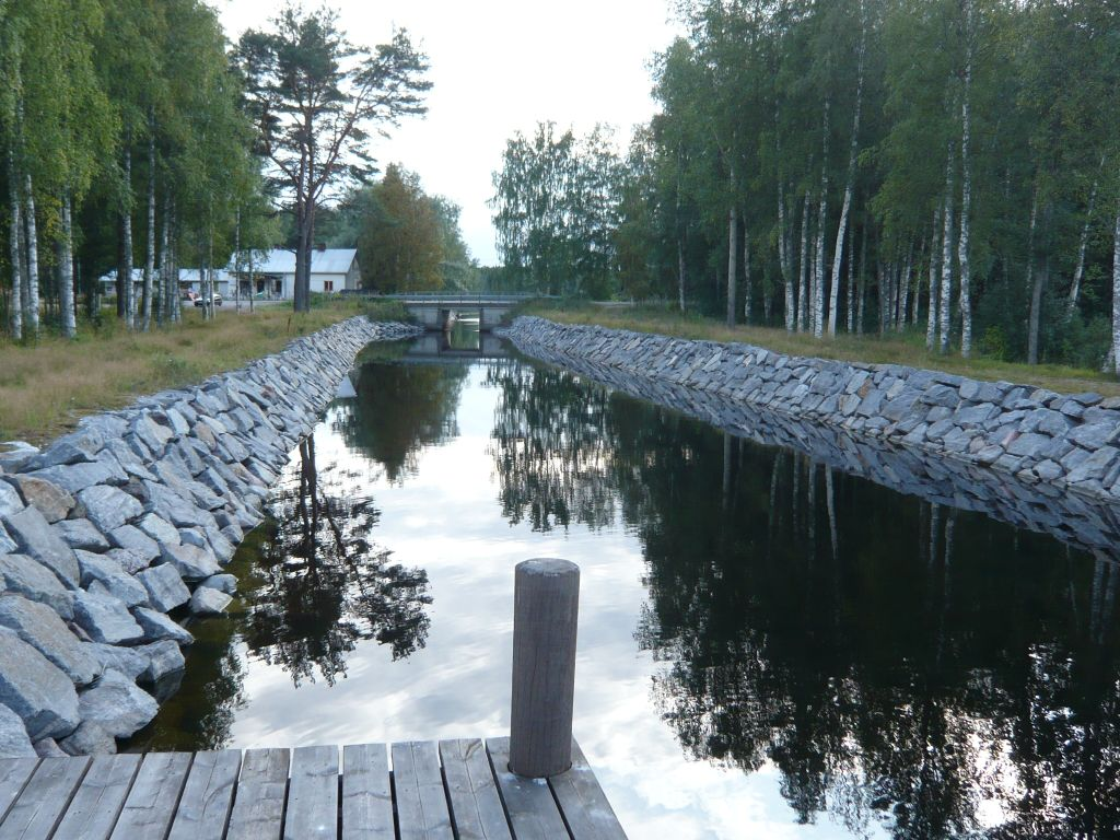 Telataipale canal in Sulkava. It is one of the four Suvorov military canals that are the oldest canals in Finland. Photo taken from a pier on the north-eastern part of the canal.